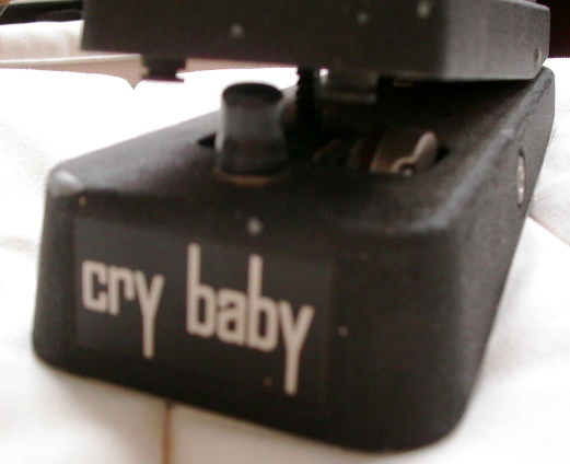 An original 1970 Thomas Organ Crybaby. It was a good wah, very original with that classic quack. Once I had the Teese though I didn't use it much... sold in 2004